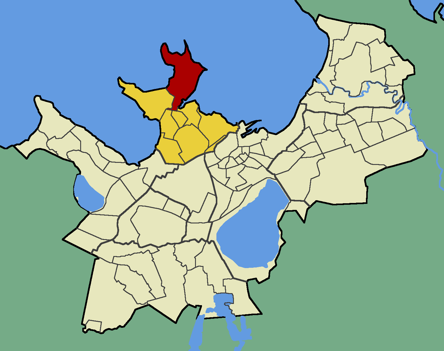 Map of Tallinn (Estonia) with borders of the quarters, Põhja-Tallinn district and Paljassaare quarter emphasised